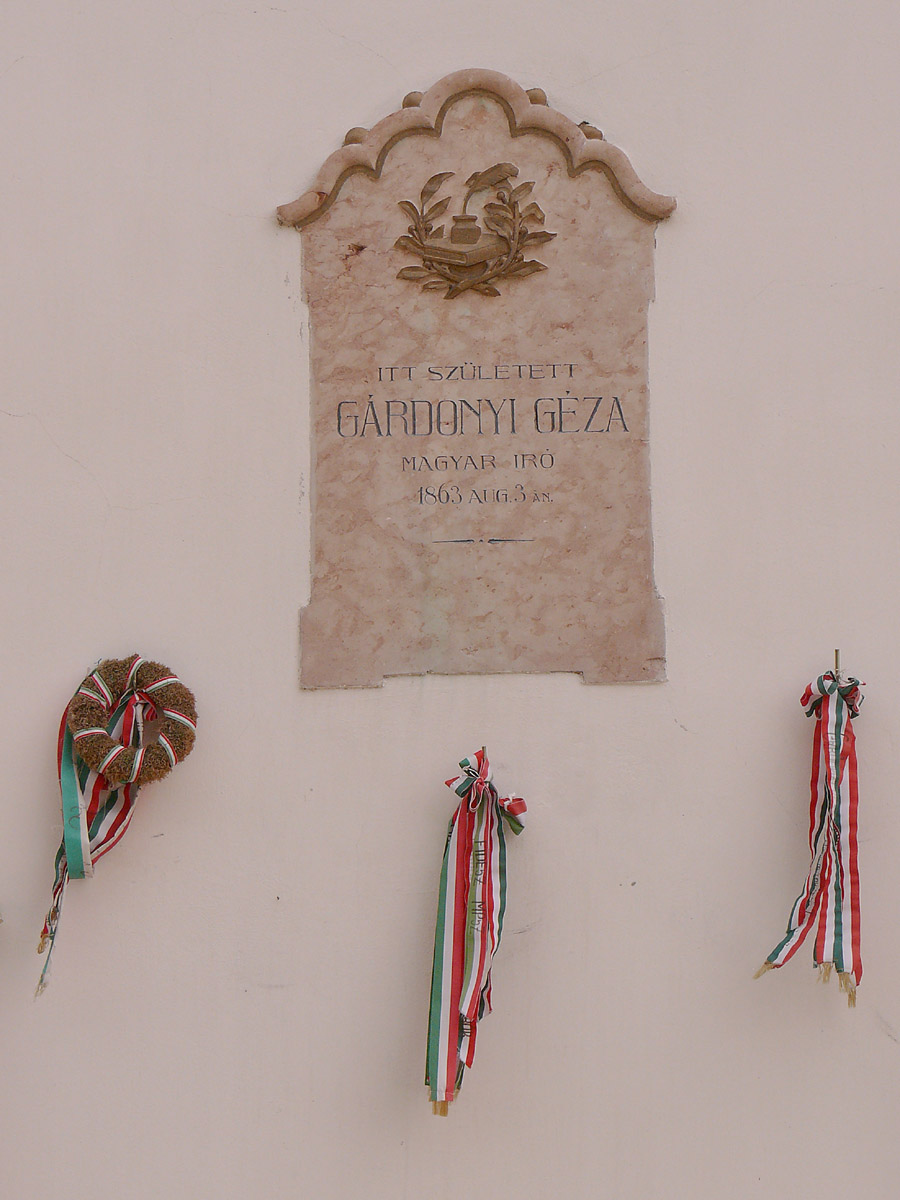 Commemorative tablet of Géza Gárdonyi Hungarian writer on the wall of his birthplace